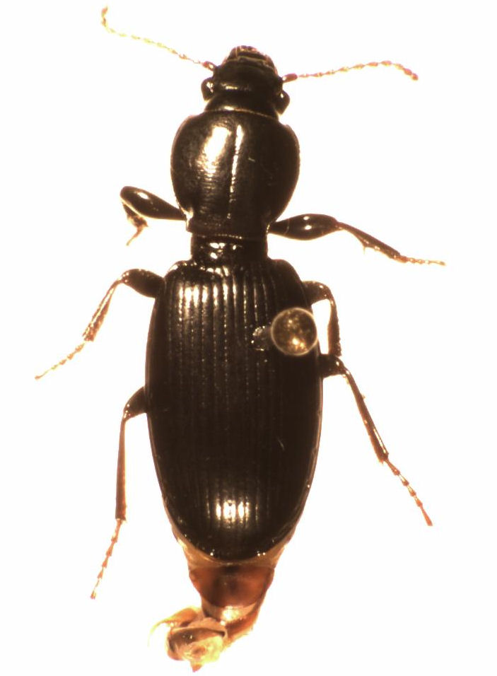 adult male Diglymma clivinoides